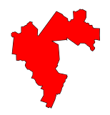 New Jersey's 40th Legislative District (2012-2022 Apportionment)